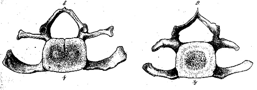 Lilljeborg 1868 (Vertebrae of the Atlantic Grey Whale)